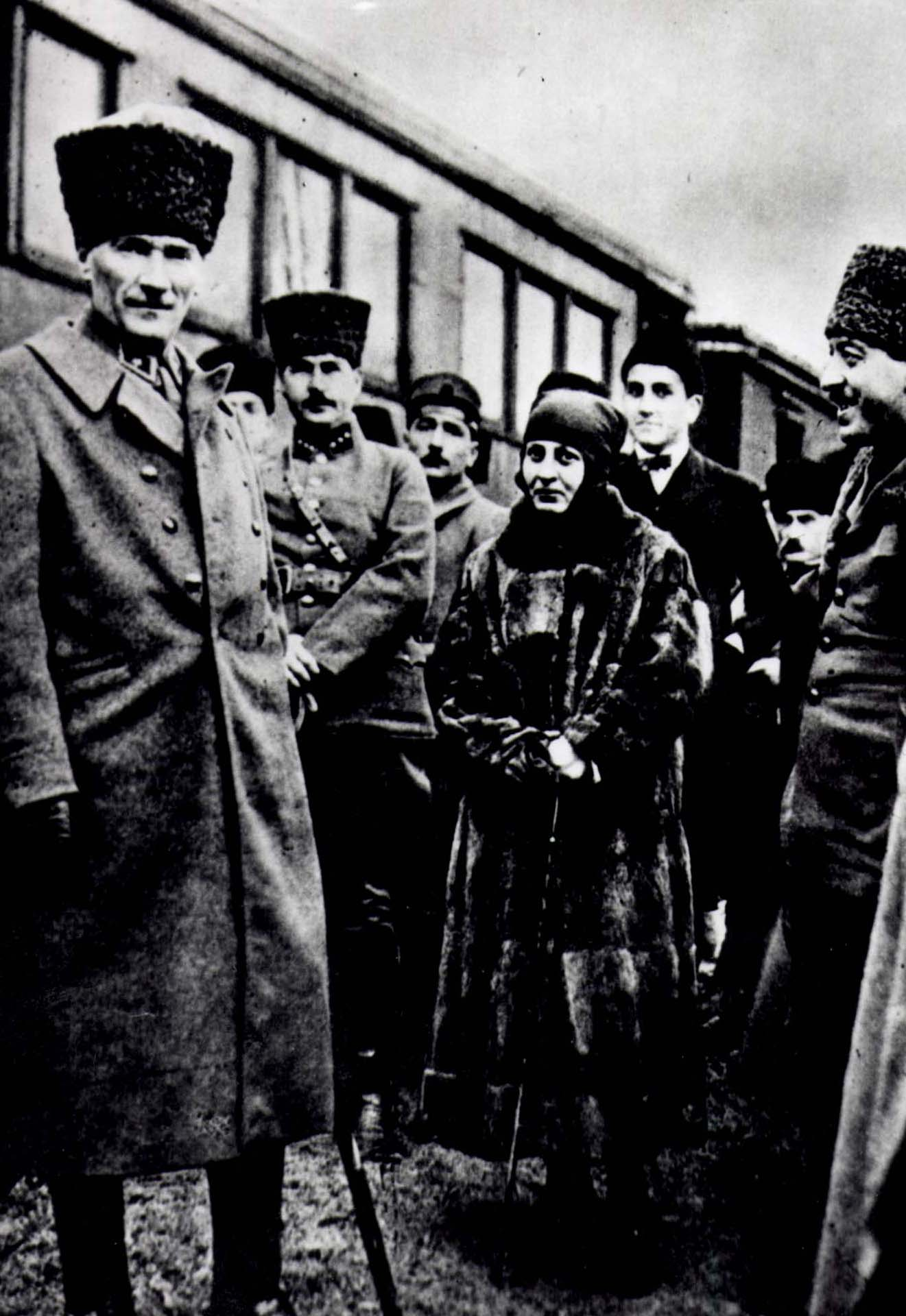 Mustafa Kemal, Halide Edib at Gebze station